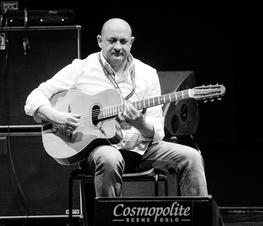 Wawau Adler with Hot Club de Norvège at Cosmopolite. The concert was part of Djangofestivalen and took place on 26. January 2019 in Oslo. Lineup:Jon Larsen (guitar)Gildas Le Pape (guitar)Svein Aarbostad (double bass)Finn Hauge (fiddle and harmonica)Wawau Adler (guitar)